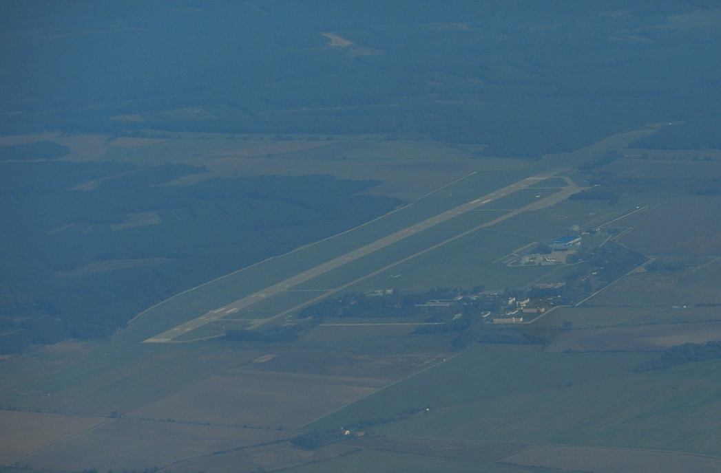 The Malacky Air Base in Slovakia.